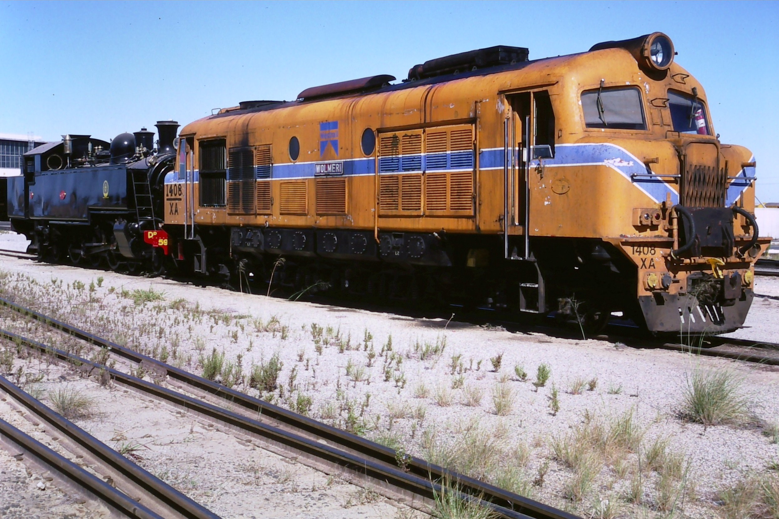 Two very different Western Australian Government Railways (WAGR) locomotives at Forrestfield Yard: at left is preserved DD class steam locomotive no DD592, in WAGR black livery, and at right is XA class diesel-electric locomotive no XA 1408 Wolmeri, in Westrail orange and blue livery, which has since been scrapped. Both of these locomotives were 3 ft 6 in gauge units; the track in the foreground is standard gauge.Kodachrome slide converted by Kaiser Baas Photo Maker Pro into a digital image.